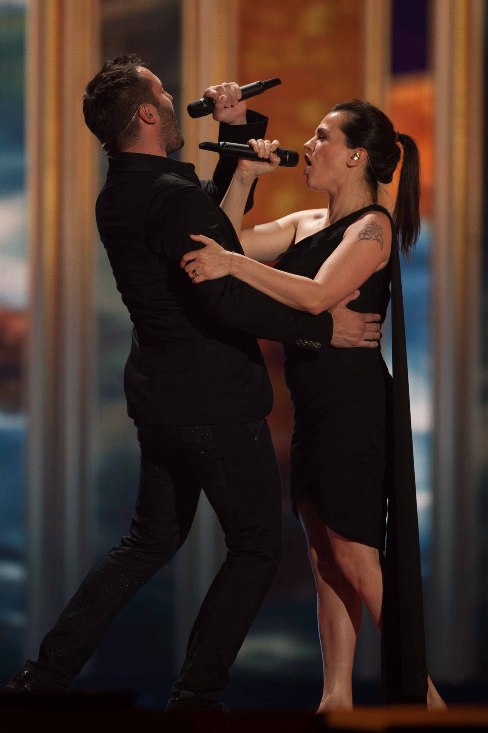 Eurovision Song Contest Vienna 2015: Marta Jandová & Václav Noid Bárta